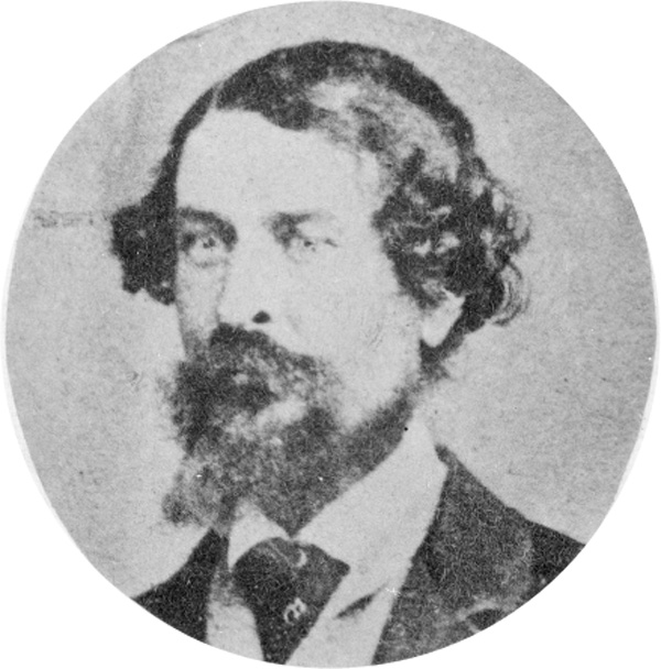 George Synnot (1819-1871), early colonist of Victoria